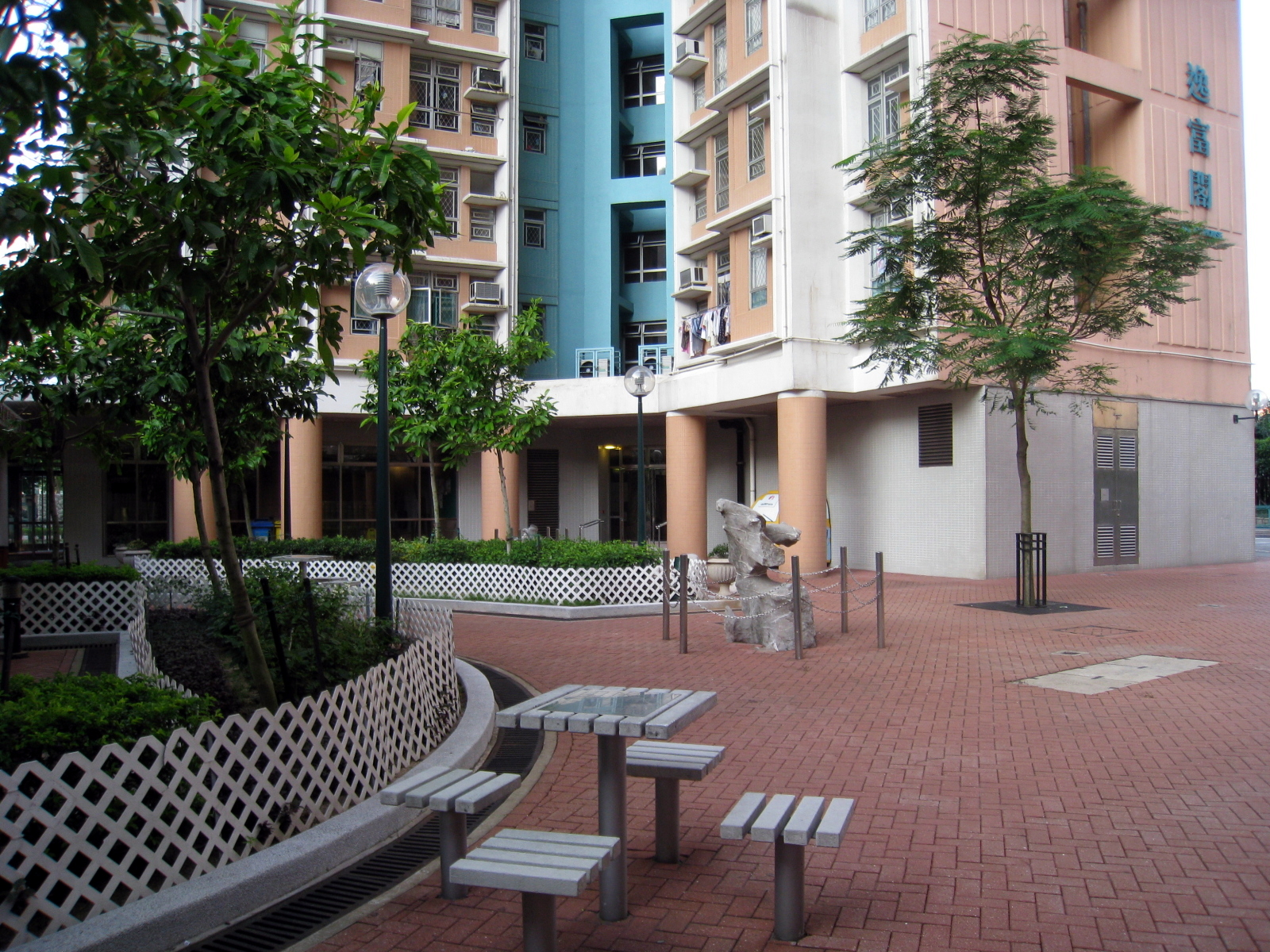 Tin Fu Court Open space